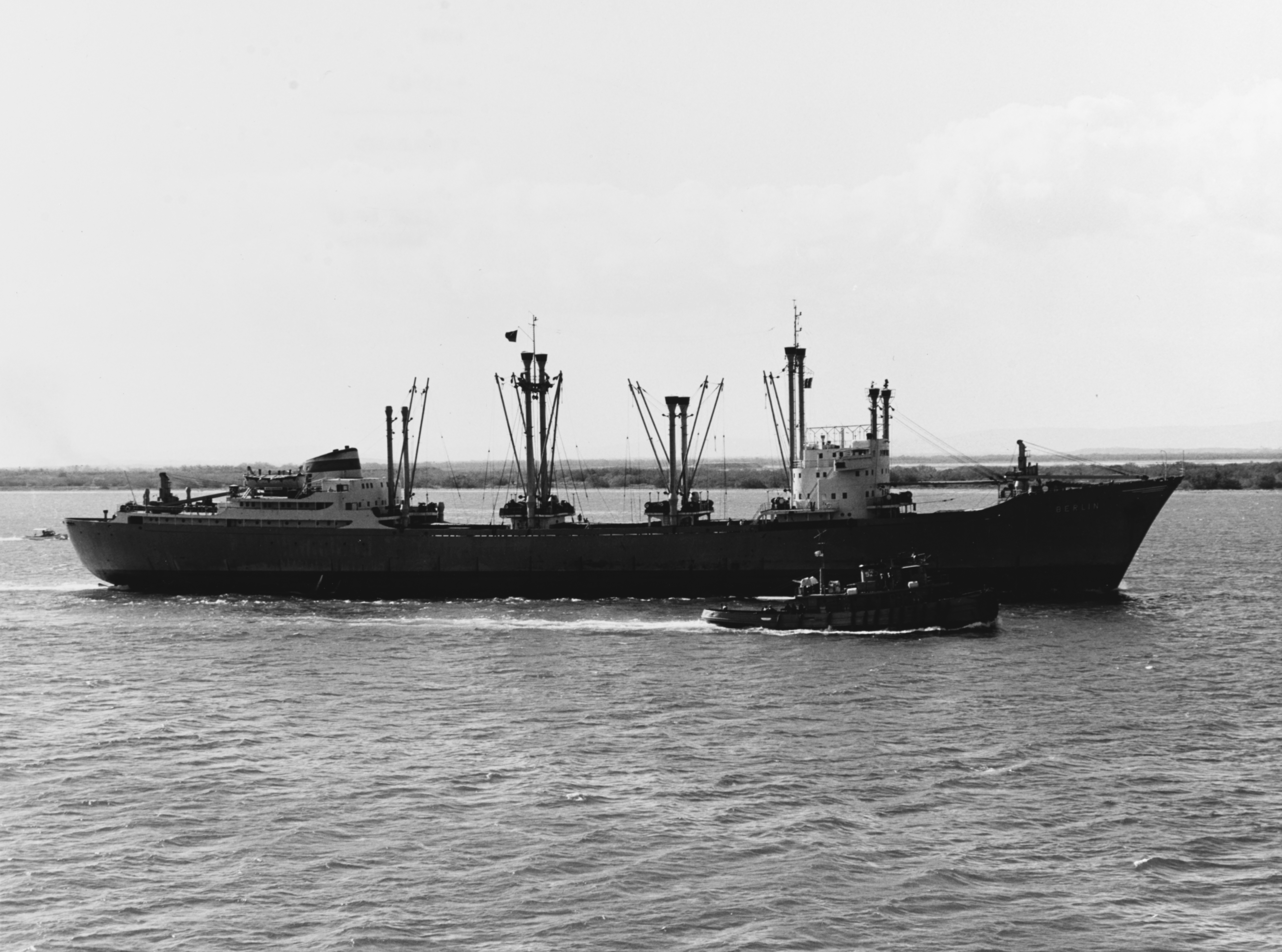 The East German freighter Berlin passing the port side of the U.S. Navy aircraft carrier USS Shangri-La (CVA-38), not visible, in Guantanamo Bay, Cuba, on 19 April 1963. The tug USS Senasqua (YTM-523) is in attendance.